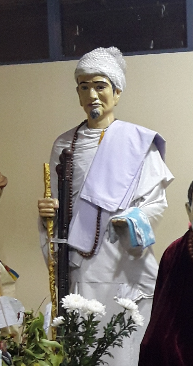 Bo Bo Aung was a prominent weizza (Burmese: ဝိဇ္ဇာ, Pali: vijjādhara), or wizard, from Sagaing who lived in Myanmar during the Konbaung Dynasty, or the 18th century. He was also called Maung Aung, or "Master Victory". He supposedly lived to be around 200 years of age.